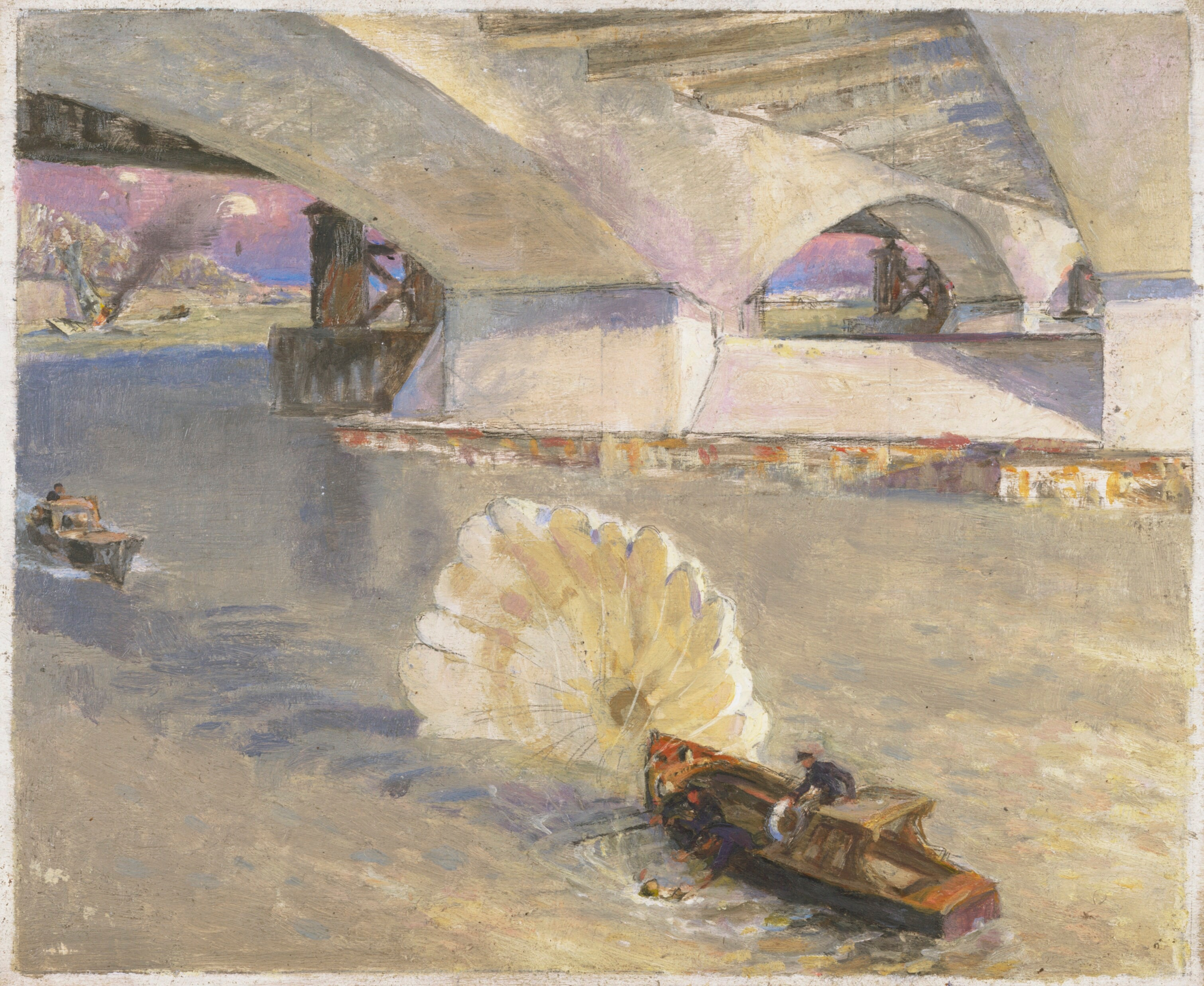 A view beneath Waterloo Bridge. In the foreground two policemen in a boat pass a lifebelt to an airman who has parachuted into the river. A second boat is approaching and other parachutes can be seen to the rear amongst smoke.